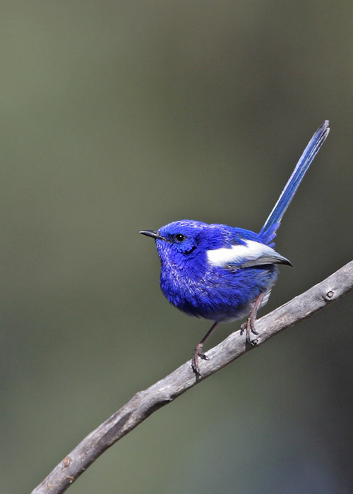 Male White-winged Fairy-wren near Coolmunda Dam, Queensland